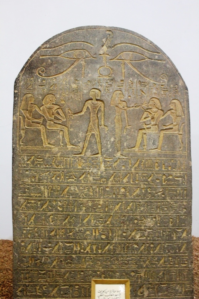 Sudan National Museum (SNM 63/4/7): New Kingdom stela, belonging to the chief of Teh-khet, Amenemhat. The stela was found in the tomb of Amenemhat at Debeira West; D. Welsby, J. Anderson: Sudan, Ancient Treasures, London 2004, pp. 104-105, no. 78